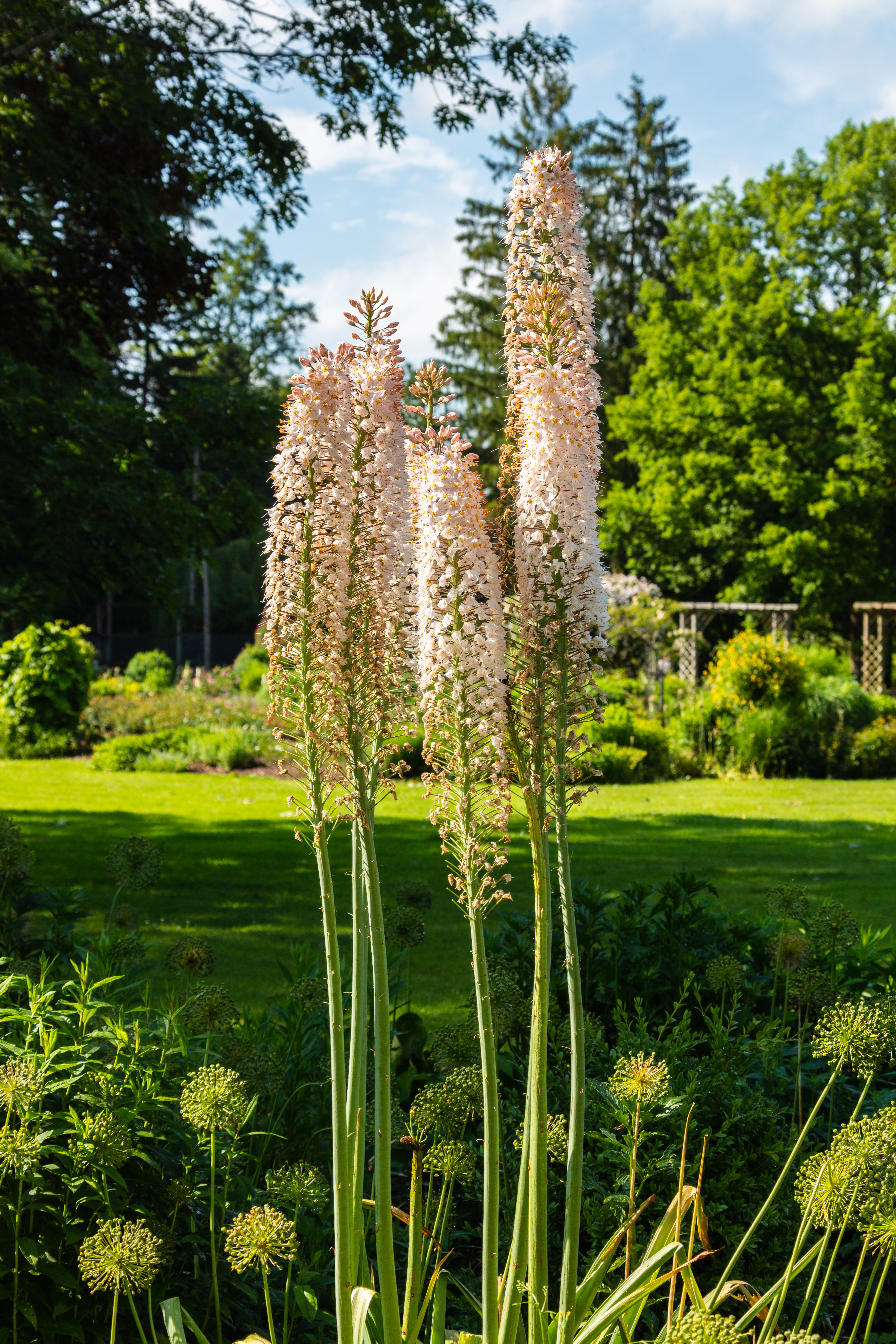 Liatris spicata Eremurus robustus, Bad Wörishofen, Germany